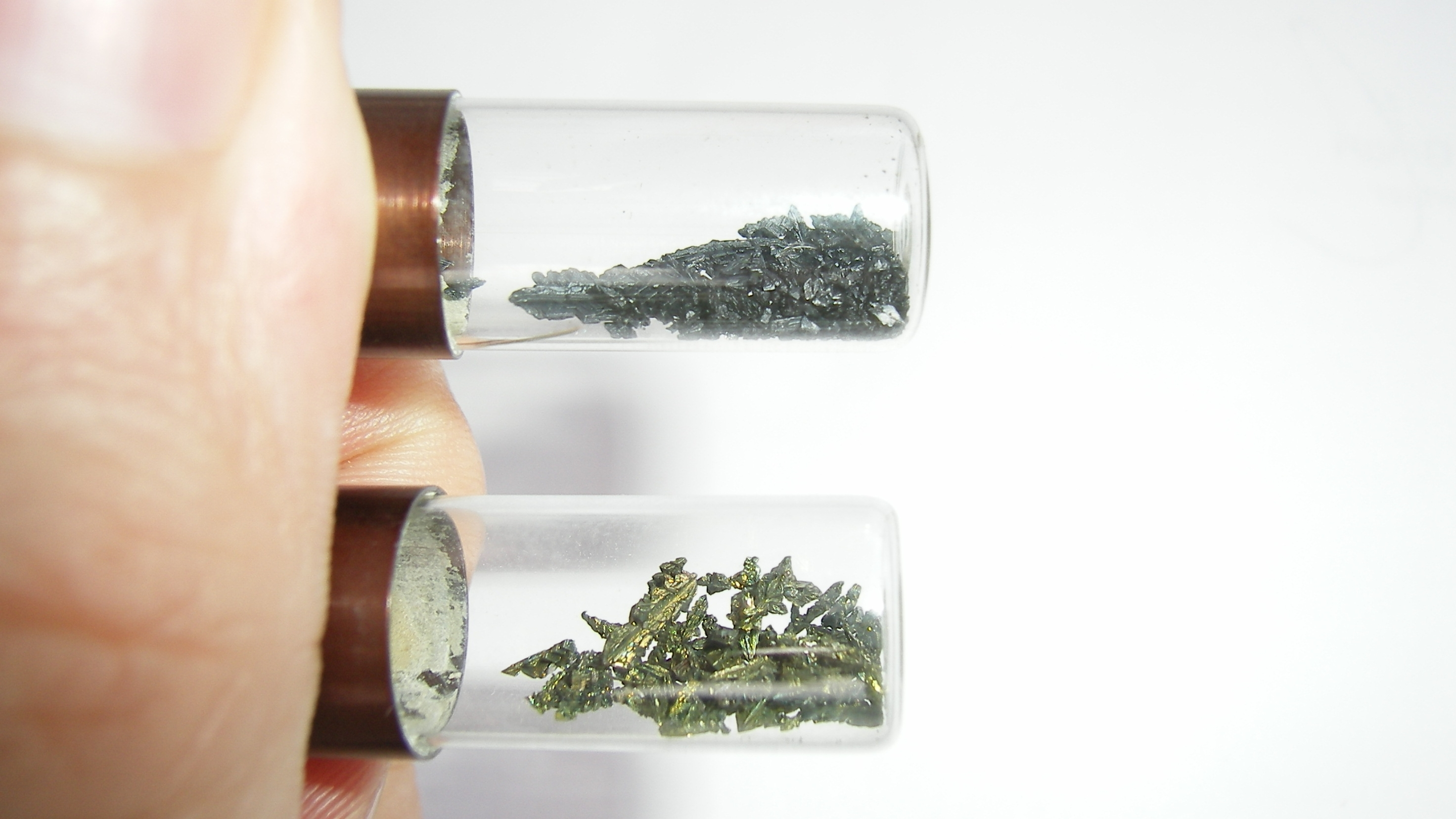 Oxidized vanadium, top image is nearly fully converted to divanadiumtrioxide